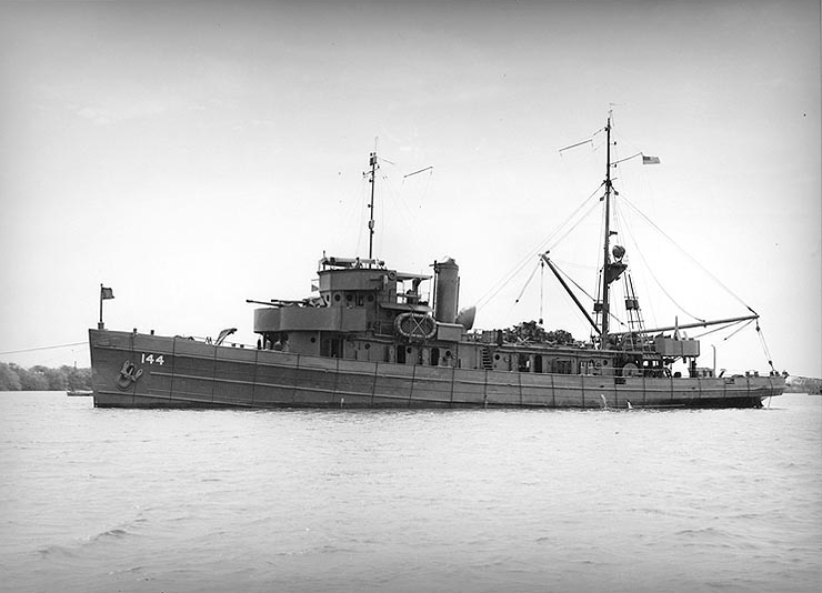 The U.S. Navy fleet tug USS Vireo (AT-144) at Pearl Harbor, Hawaii (USA), following repairs and overhaul, on 20 August 1942. Vireo conducted post-repair trials until 25 August. Two days later, she got underway to escort SS Gulf Queen to the Fiji Islands, towing two barges, arriving on 11 September 1942.